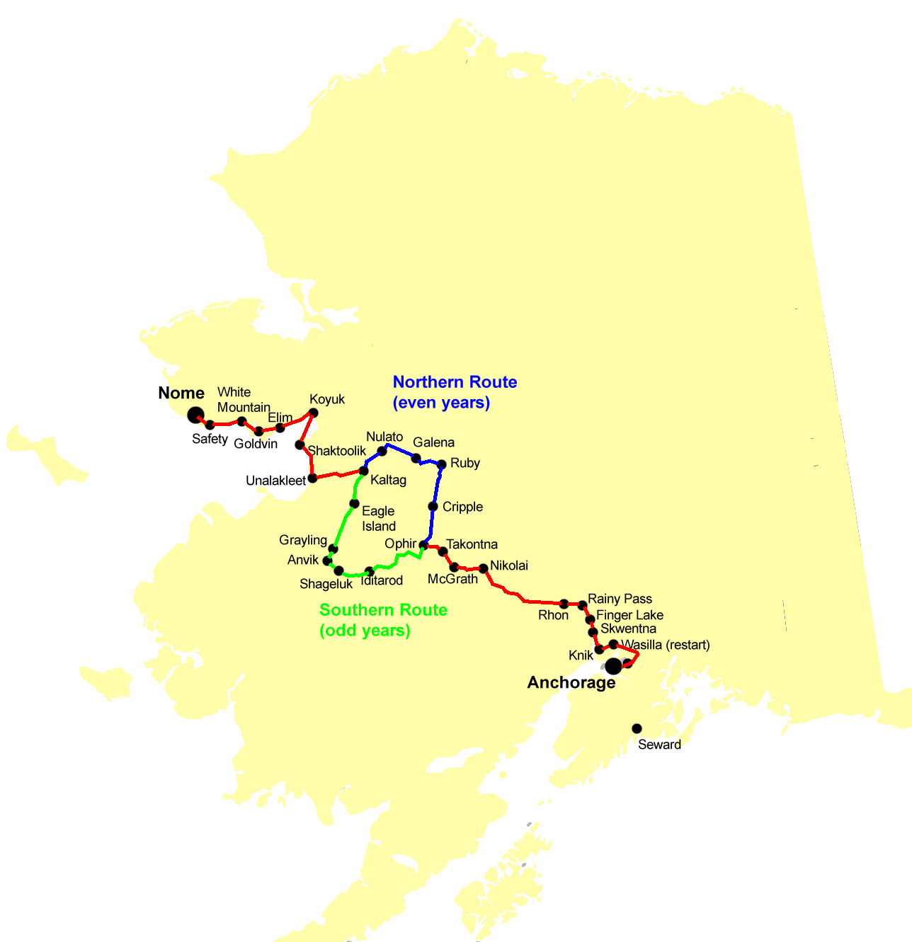 Route of the Iditarod Trail Sled Dog Race across Alaska